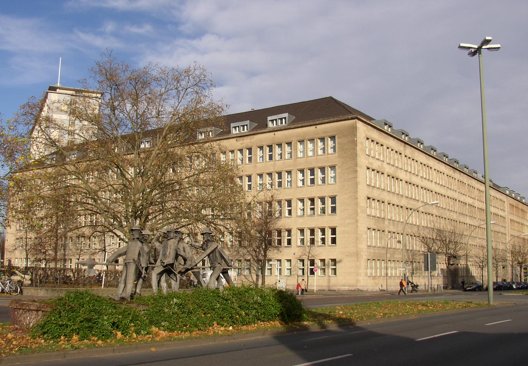 Karstadt building in Berlin-Wilmersdorf, Germany